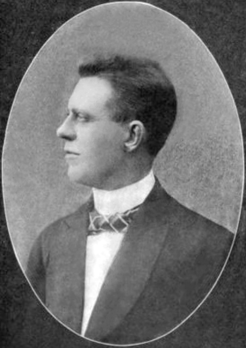 Herman Bjorn Dahle (1855-03-30 – 1920-04-25), United States Congressman from Wisconsin. (1899-1903).